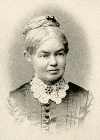 Photographic potrait of American educator and reformer Marah Emily Howland (1827–1929). From American Women: Fifteen Hundred Biographies with Over 1,400 Portraits, Frances E. Willard and Mary A. Livermore, editors. Mast, Crowell & Kirkpatrick, 1897 (revised edition from 1893), p. 399